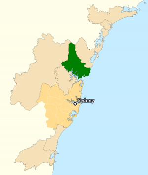 Incorporates or developed using Administrative Boundaries ©PSMA Australia Limited licensed by the Commonwealth of Australia under Creative Commons Attribution 4.0 International licence (CC BY 4.0). Derived from State and Territory Boundaries from the Australian Bureau of Statistics under Creative Commons Attribution 2.5 Australia license (CC BY 2.5 AU)